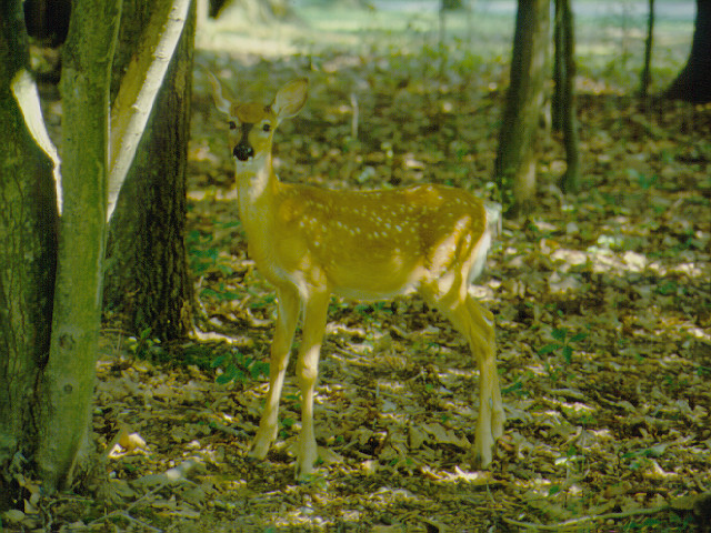 A fawn at Buchanan's Birthplace State Park